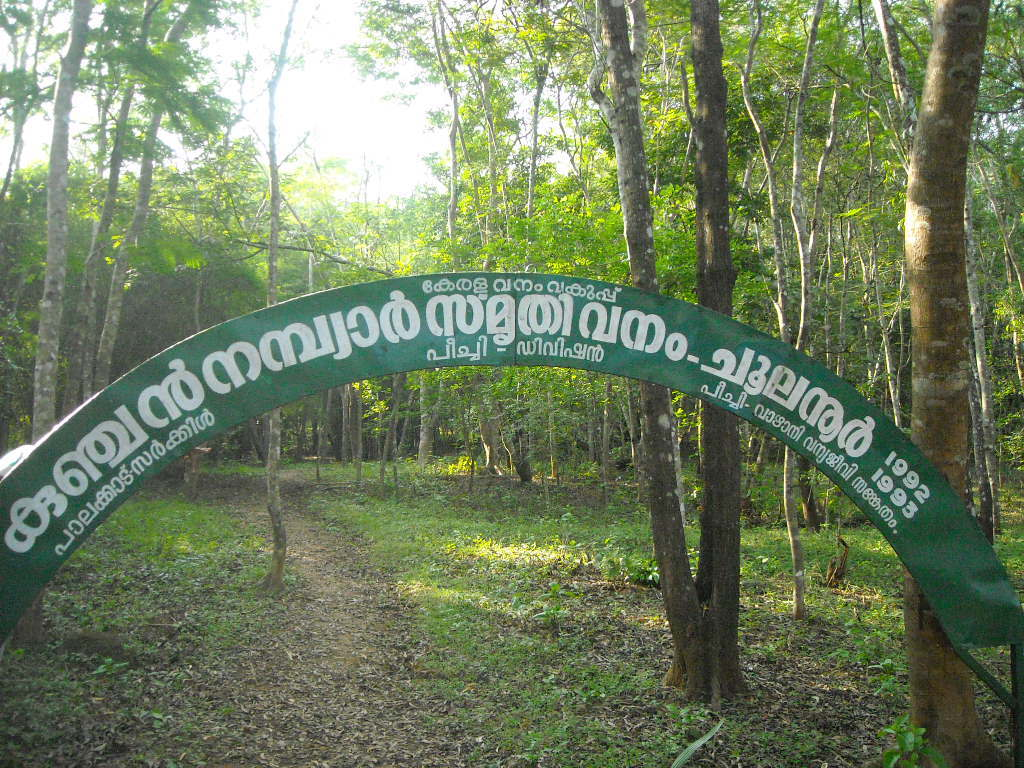 Chulanur kunjan smrithi vanam